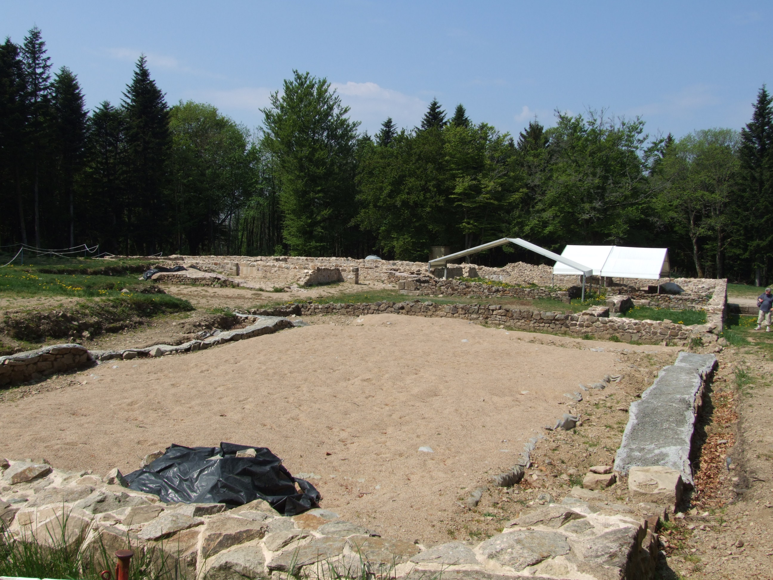 Bibracte, Burgundy, FRANCE